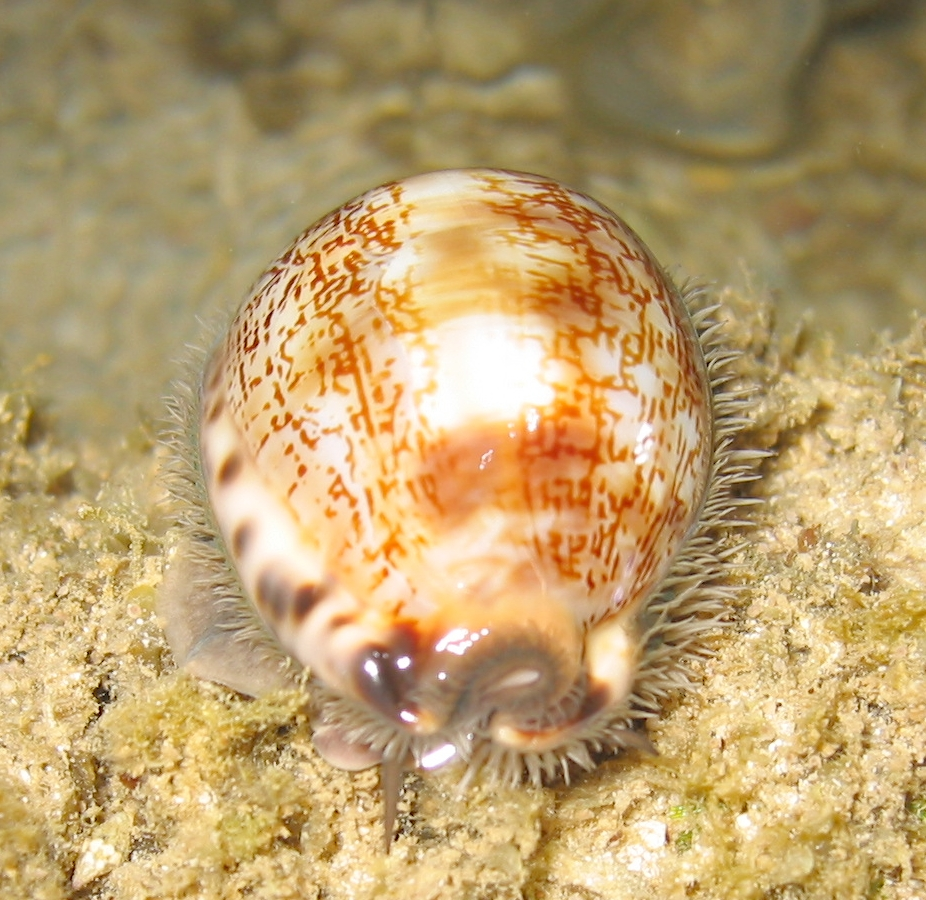 Arabian Cowry. Mauritia arabica asiatica Schilder & Schilder, 1939. taken at Haemida beach, Iriomote island, Japan.